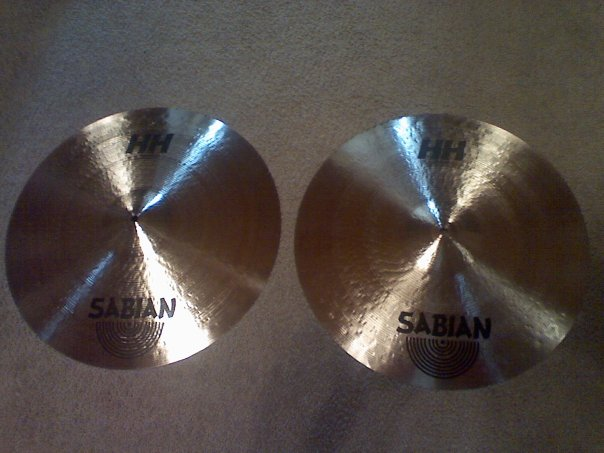 A pair of crash cymbals.